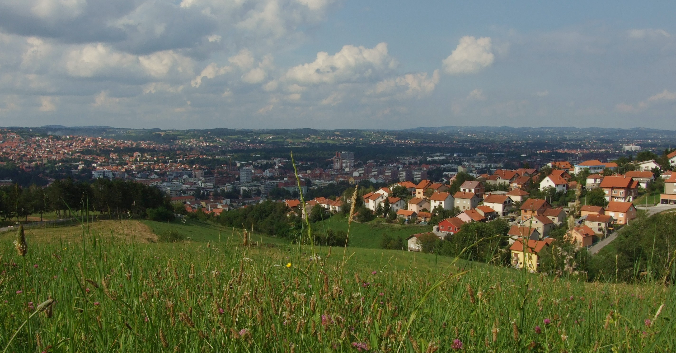 City of Vajevo seen from south, from a meadow next to the Revolution monument, Serbia